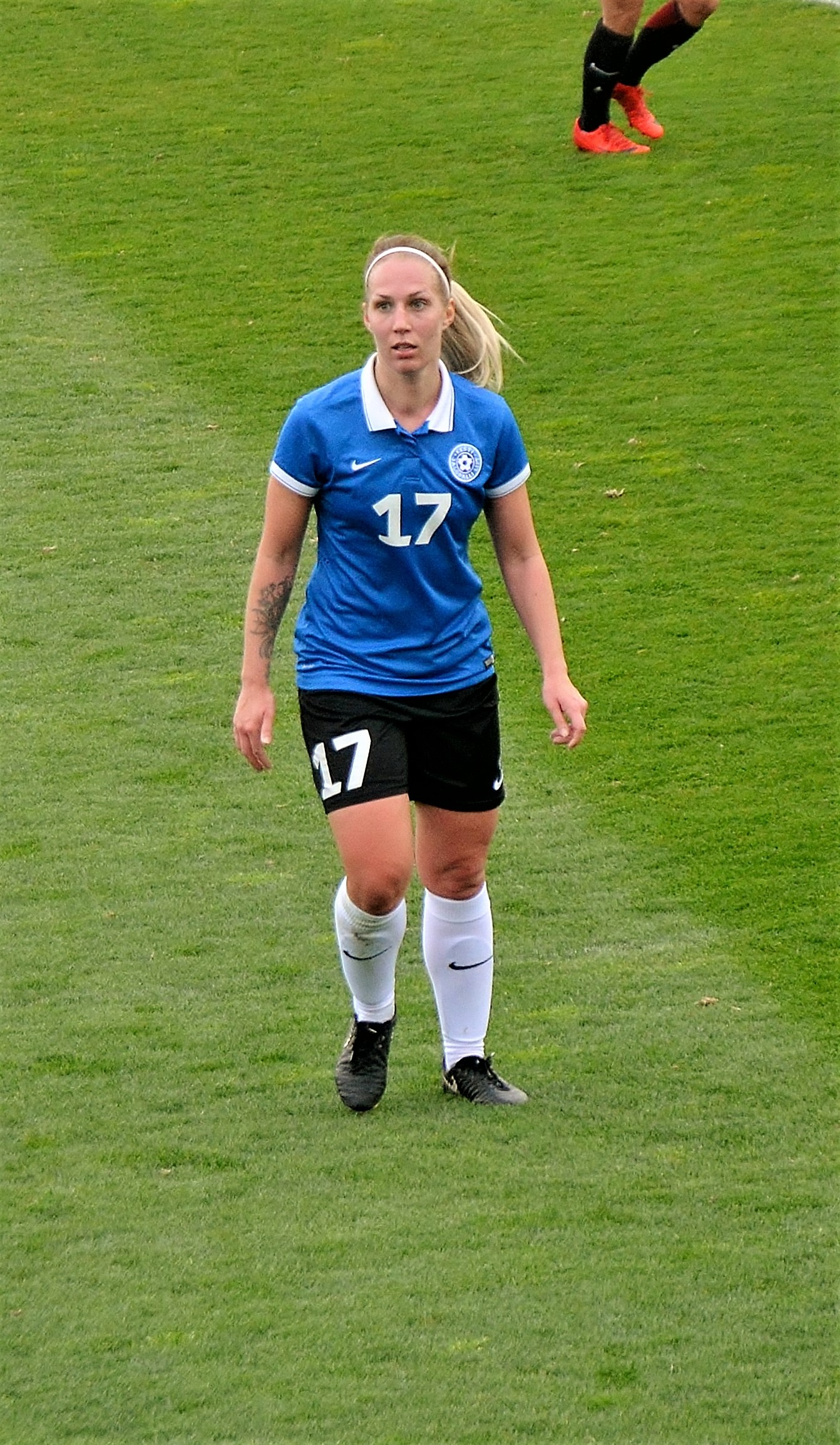 Eneli Kutter playing for Estonia women's national football team in the friendly away match against Turkey at TFF Riva Facility on 7 April 2018.